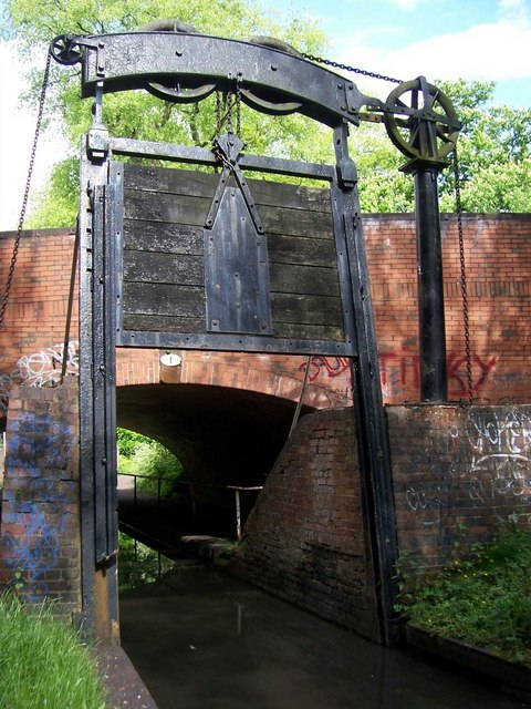 Guillotine lock Bridge No1 on the Stratford-on-Avon canal. Nr King's Norton Junction